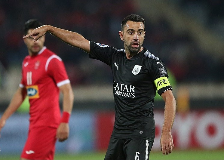 Xavi in Persepolis FC and Al sadd Match (Azadi-Tehran)